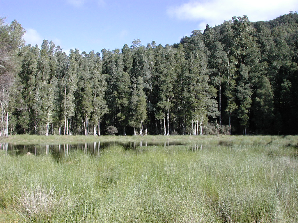 Arohaki Lagoon with kahikatea forest in the background (Whirinaki Forest Park near Rotorua, New Zealand).